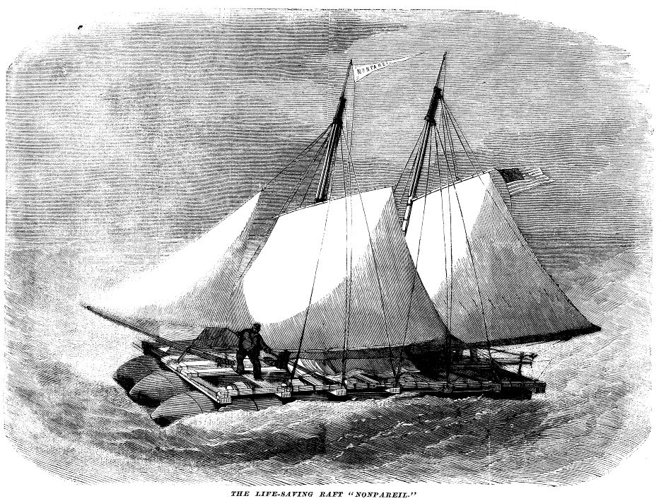 Scanned Engraving of the Non-Pariel inflatable boat